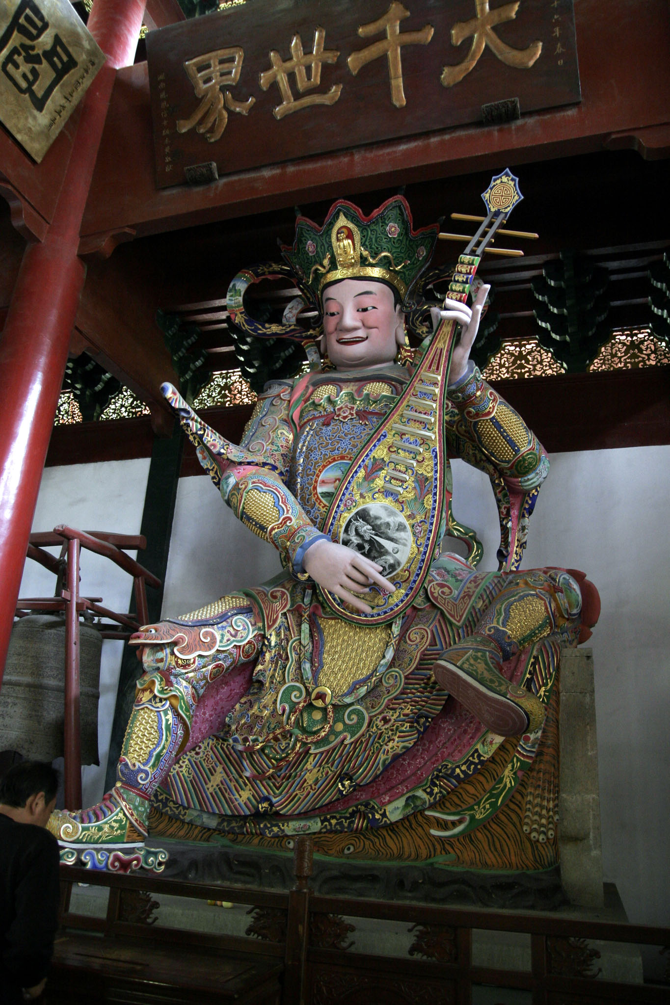 A Heavenly King (pipa-player) watching for the East and the wind. in Lingyin Temple close to Hangzhou, Zhejiang Province, China.